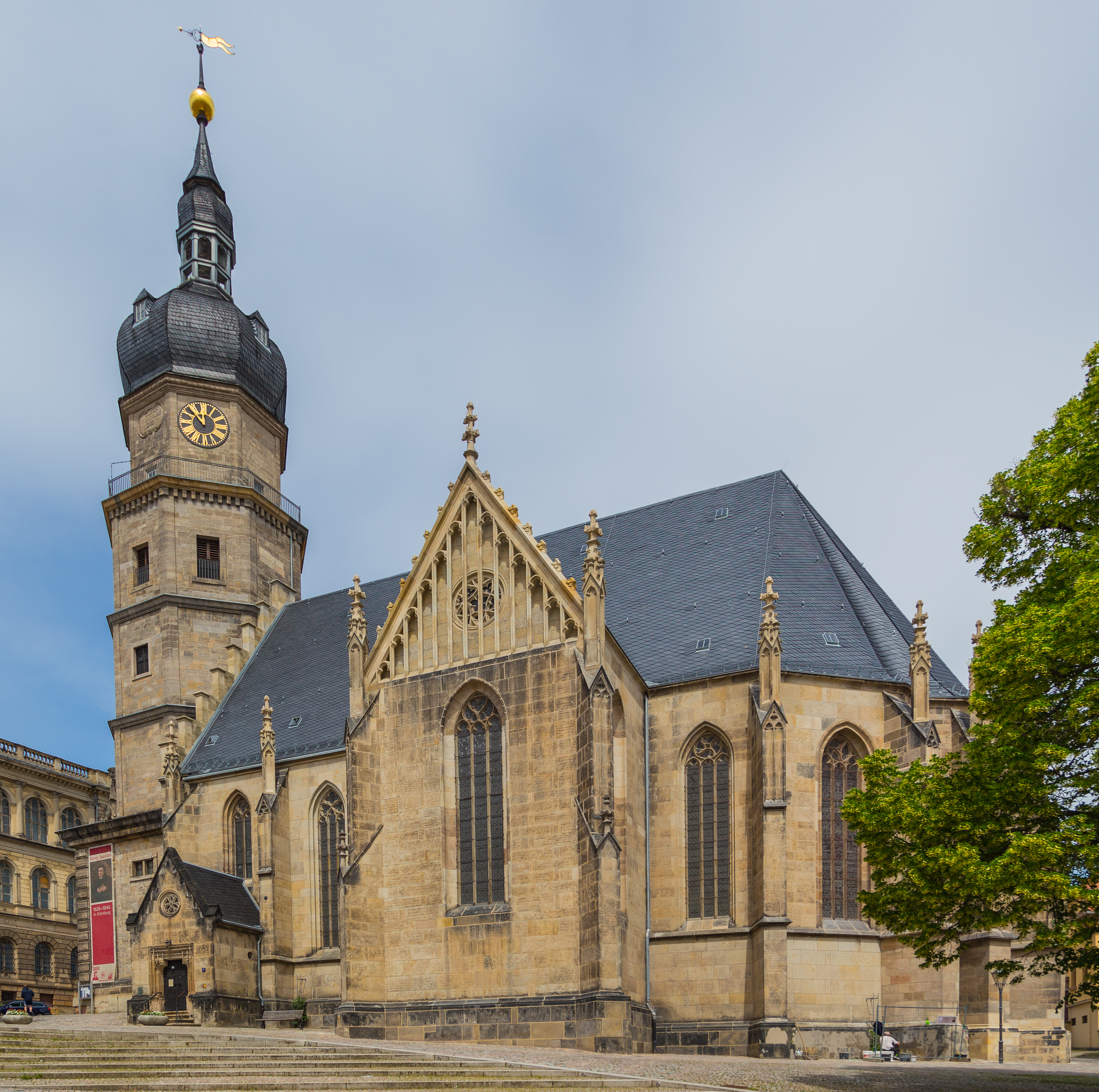 The Protestant St Bartholomew Church (St.-Bartholomäi-Kirche) in Altenburg, Landkreis Altenburger Land, Thuringia, Germany.